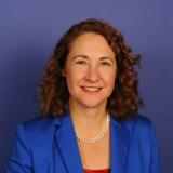 Congresswoman Elizabeth Esty's 2013 Congressional Portrait.